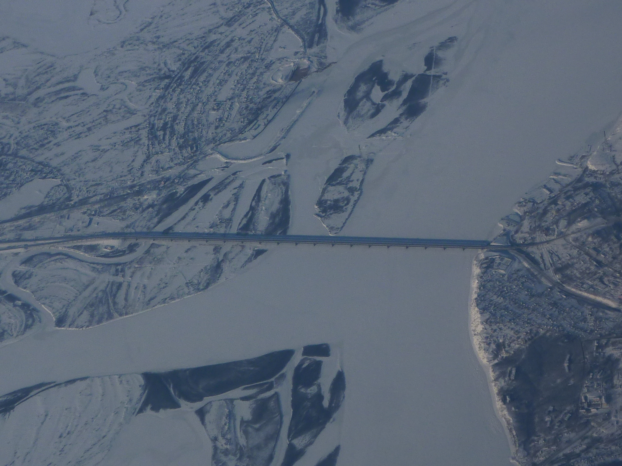 An aerial view of the Khabarosvk Bridge across the Amur, looking north. Photo taken from an AA aircraft on a non-stop ORD-PVG flight